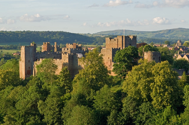 Ludlow Castle viewed from Whitcliffe in evening sunshine. In the background is Brown Clee.